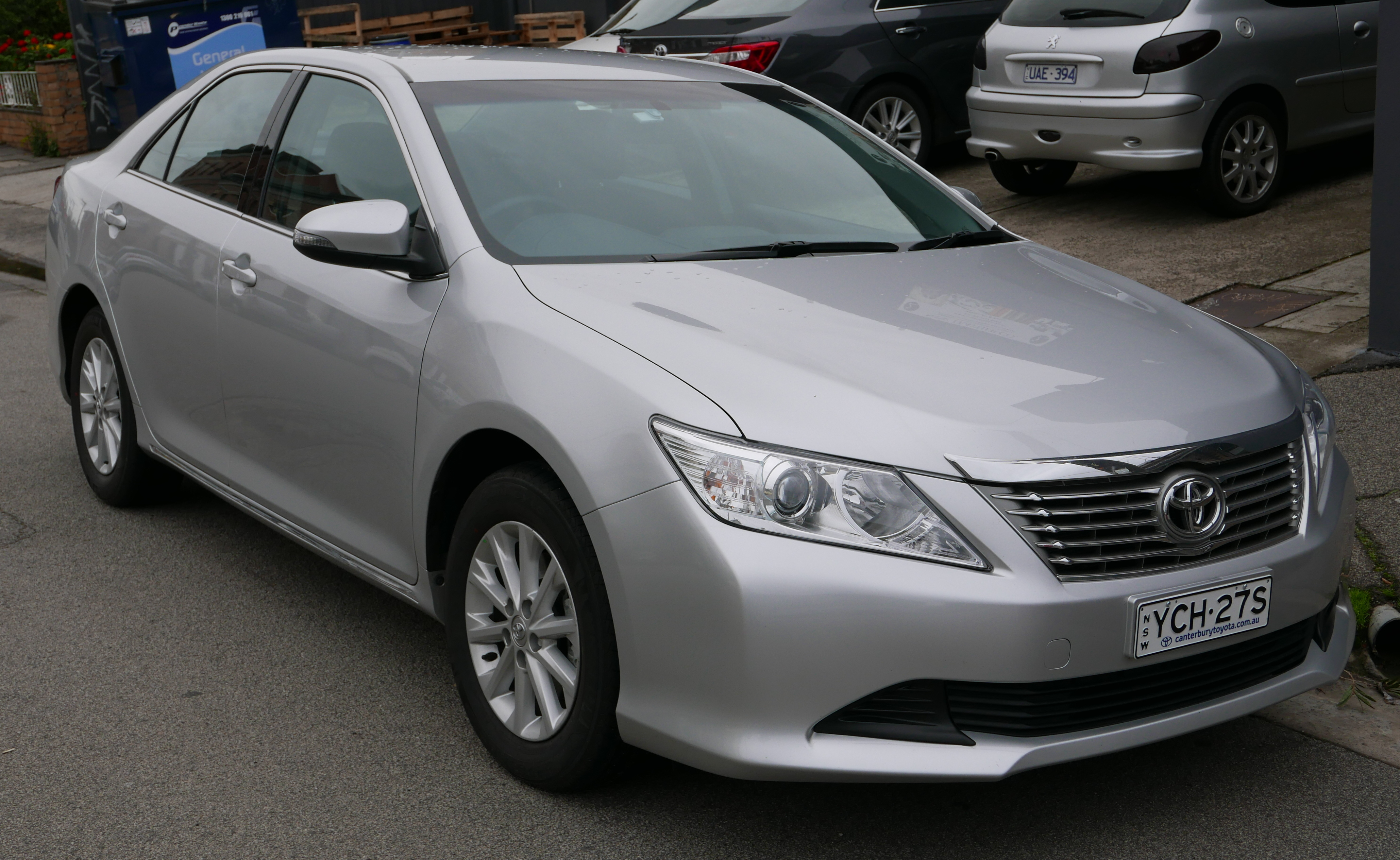 2015 Toyota Aurion (GSV50R) AT-X sedan. Photographed in Collingwood, Victoria, Australia.